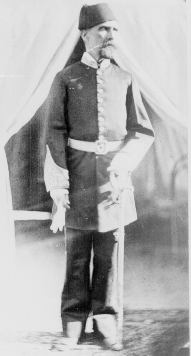 Markopoli Bey, secretary of Rauf Pasha, Ottoman governor-general of Sudan, photographed in 1882 by French diplomat Louis Vossion in Khartoum